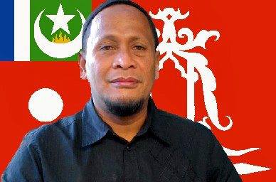 Muedzul Lail Tan Kiram